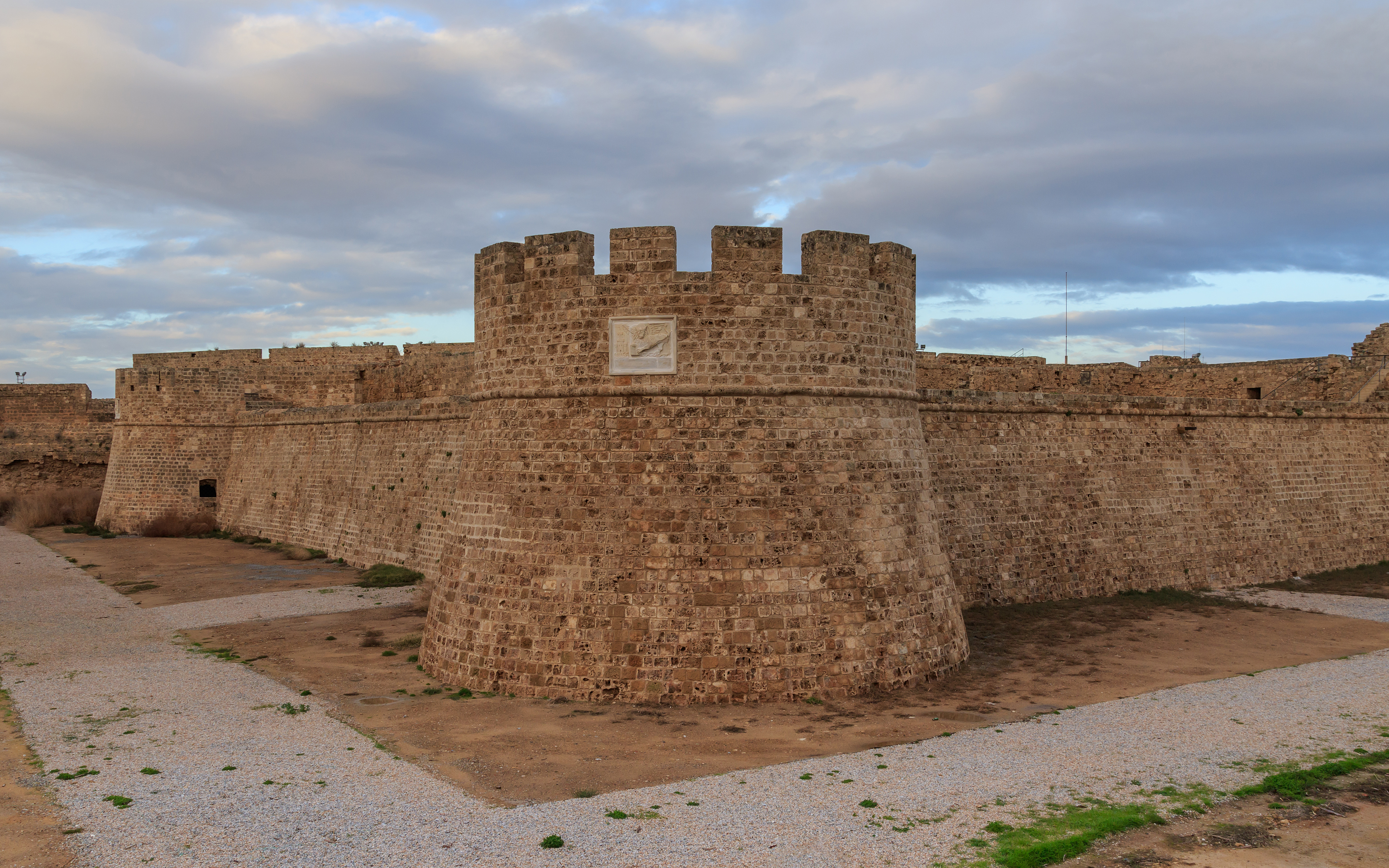 Othello Tower of the city wall in Famagusta, Cyprus